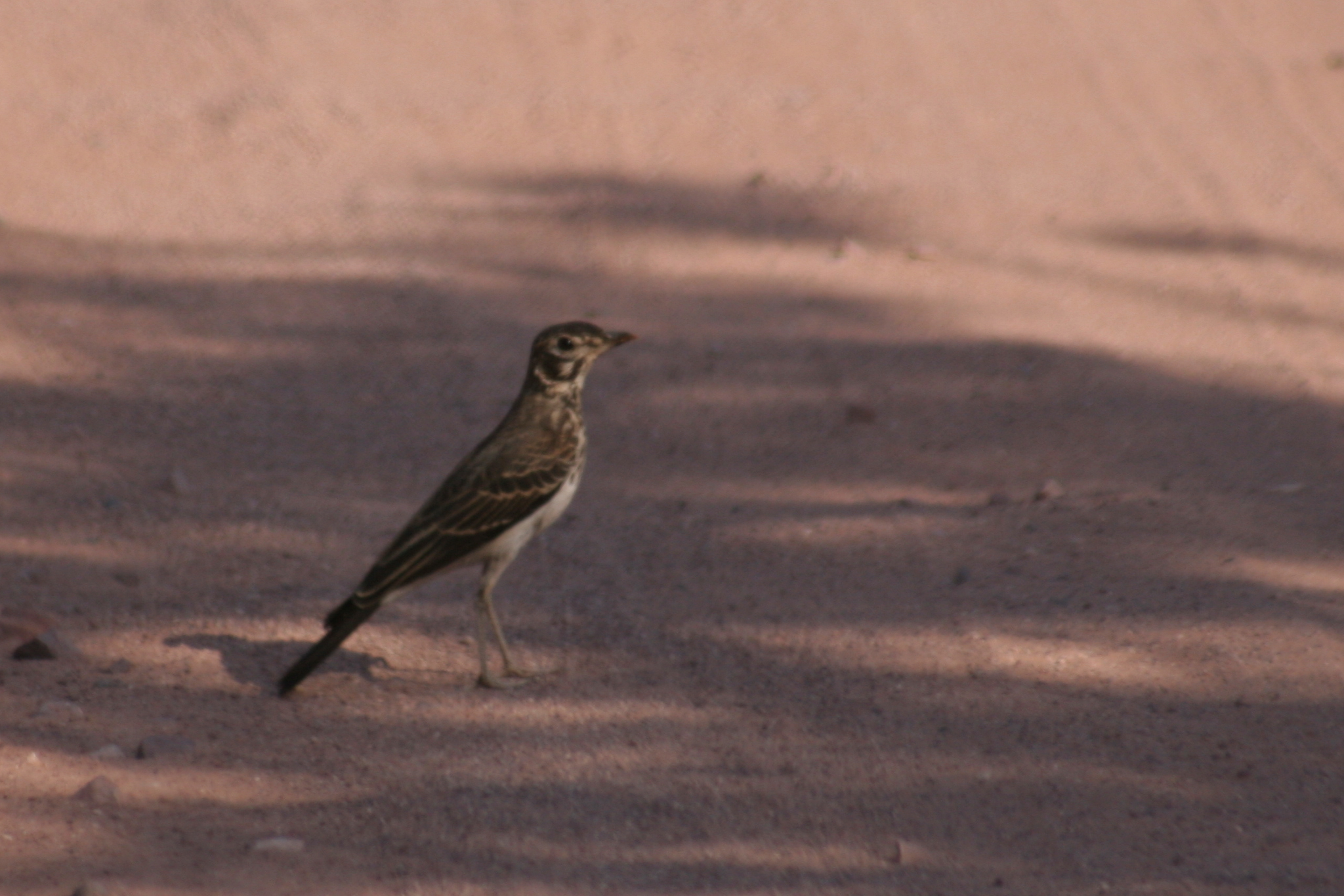 Big for a lark...looks and acts thrush-like.